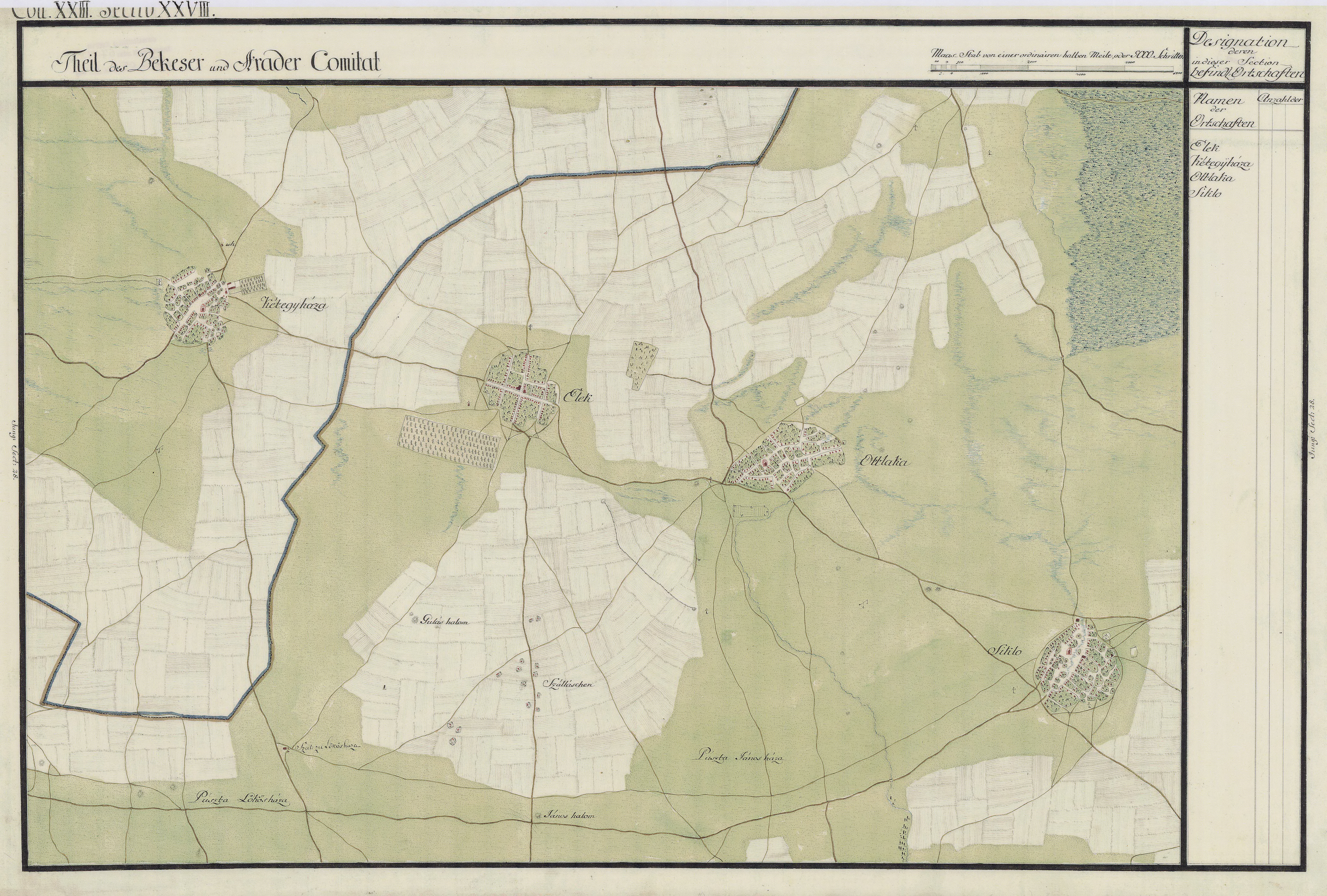 Arad County, 1782-85. Josephinische Landesaufnahme pg.23-28